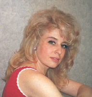 Gal Rasché (real name Galina Krutikowa), Russian-Austrian conductor and pianist